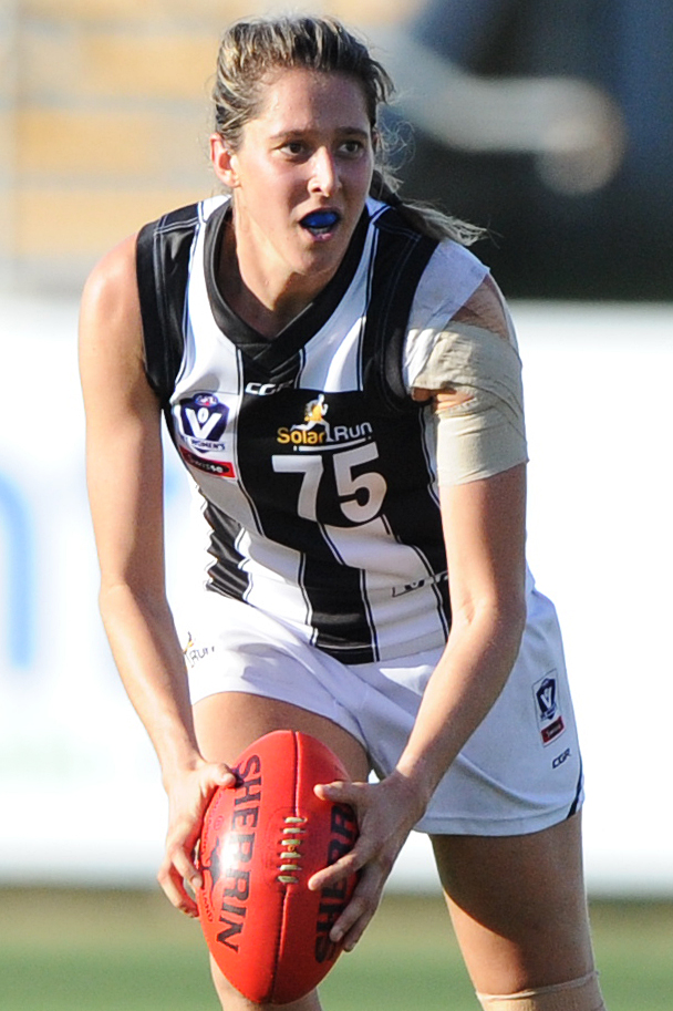 Erica Fowler of Collingwood during the 2018 VFLW round 8 match between NT Thunder and Collingwood at TIO Stadium on Saturday, 30 June 2018 in Darwin, Australia.